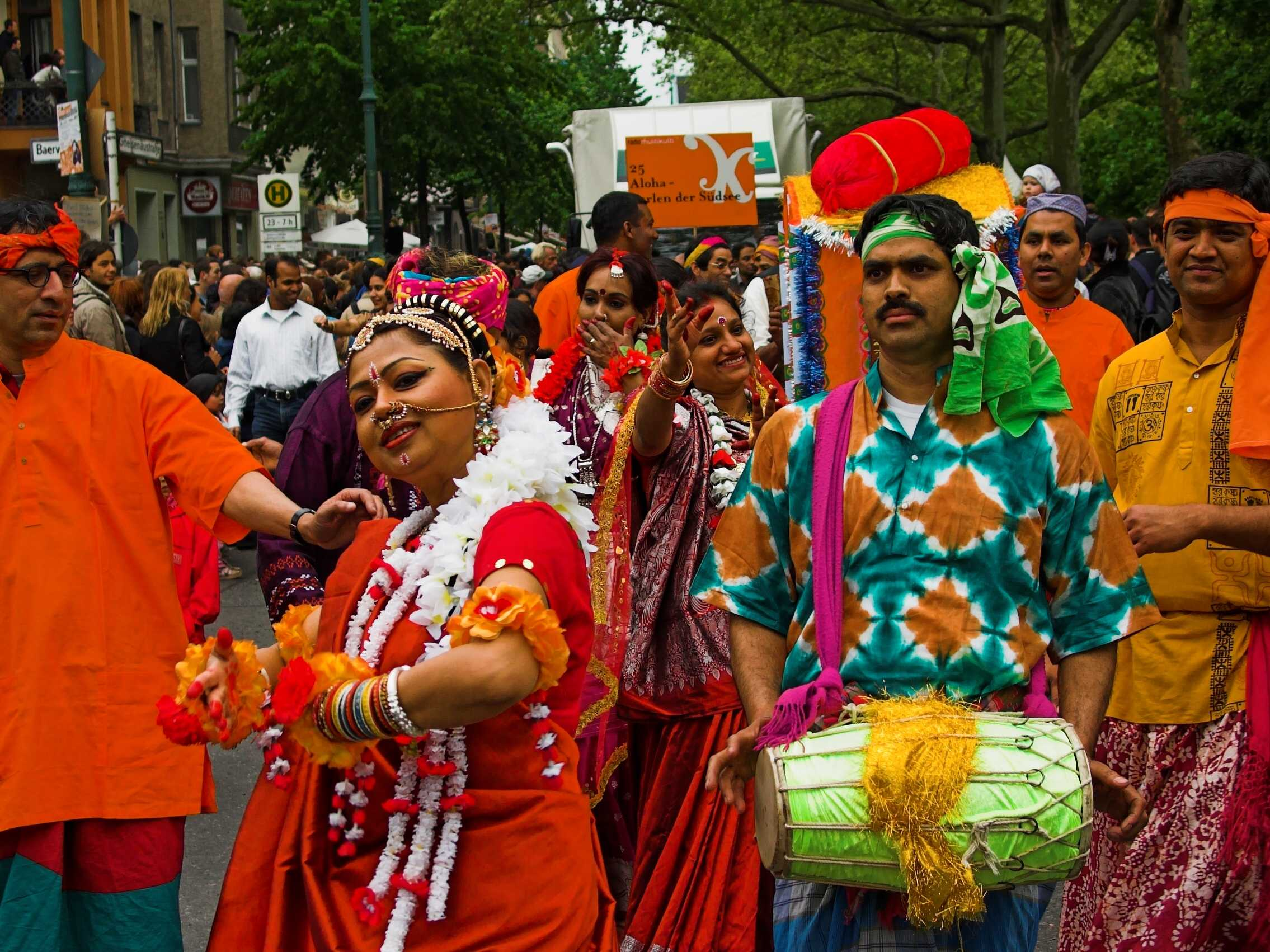 Carnival of cultures, Berlin May 2005 Karneval der Kulturen in Berlin